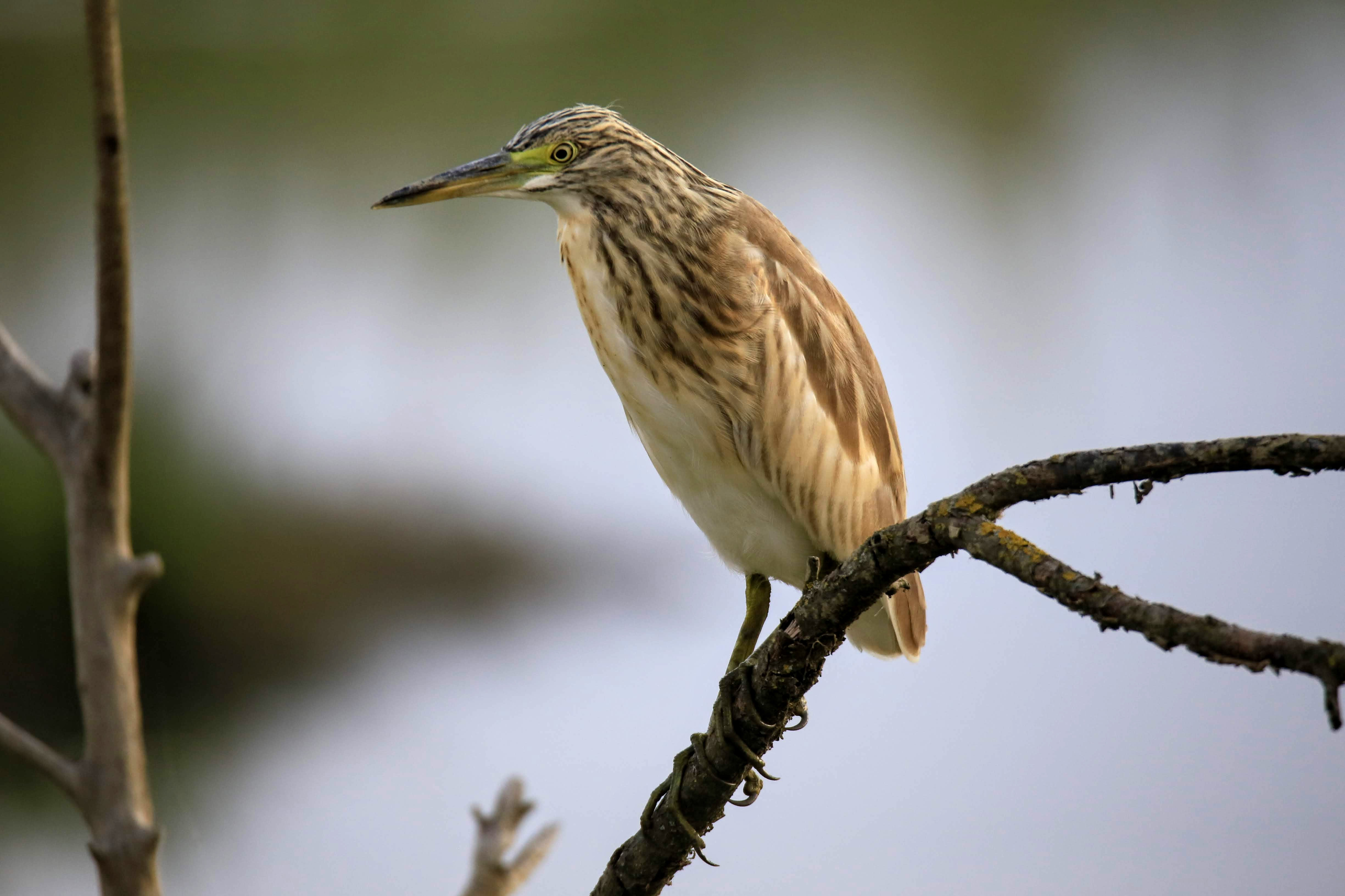 Ardeola ralloides immature, near Florence, Italy